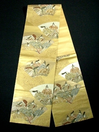 High-end Fukuro obi from Kyoto Nishijin. It has dramatic noble people pattern which is woven elaborately.